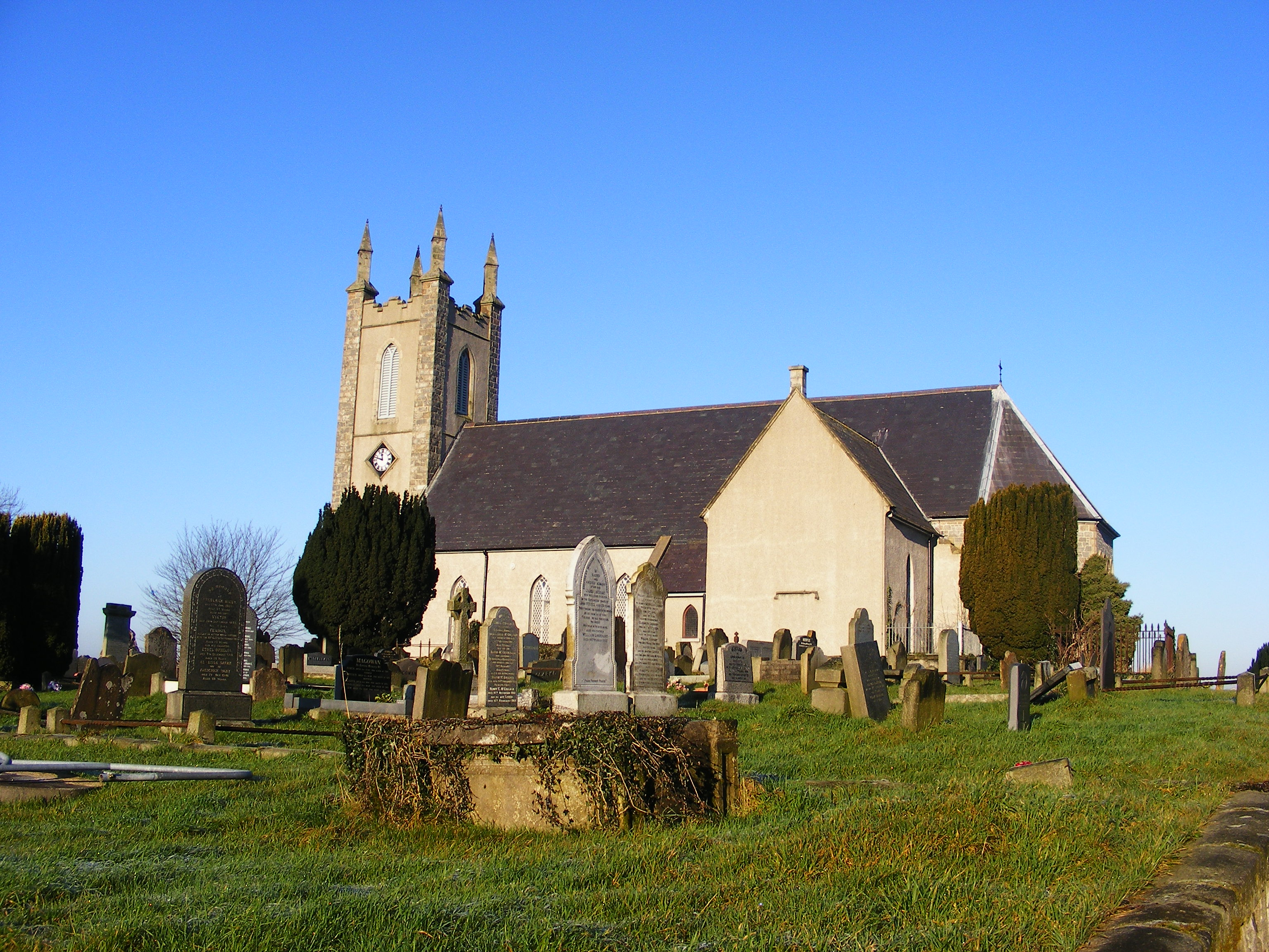 Saint Patrick's Church, Newry, from the East side (rear)